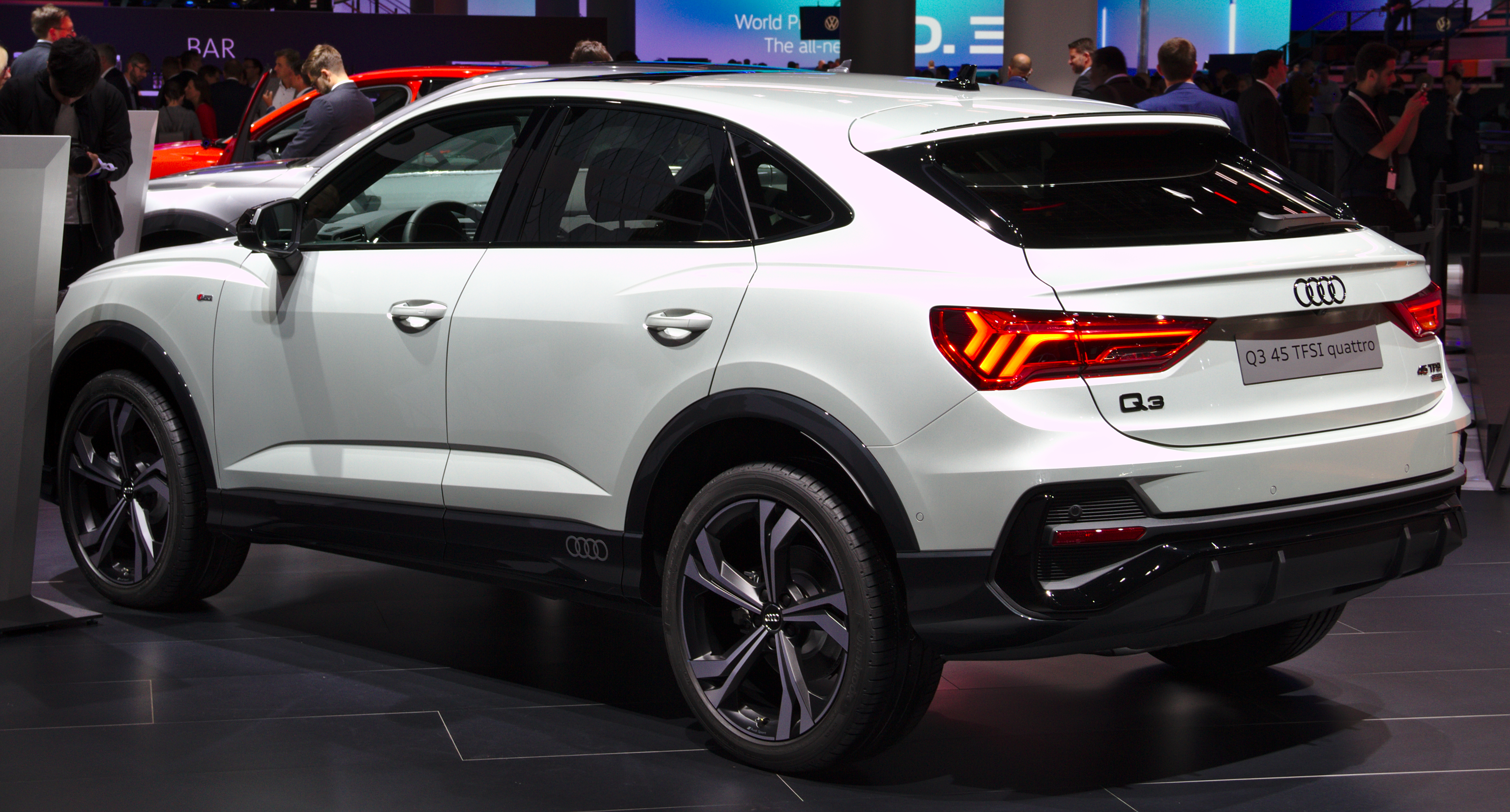 Audi_Q3_Sportback at IAA 2019